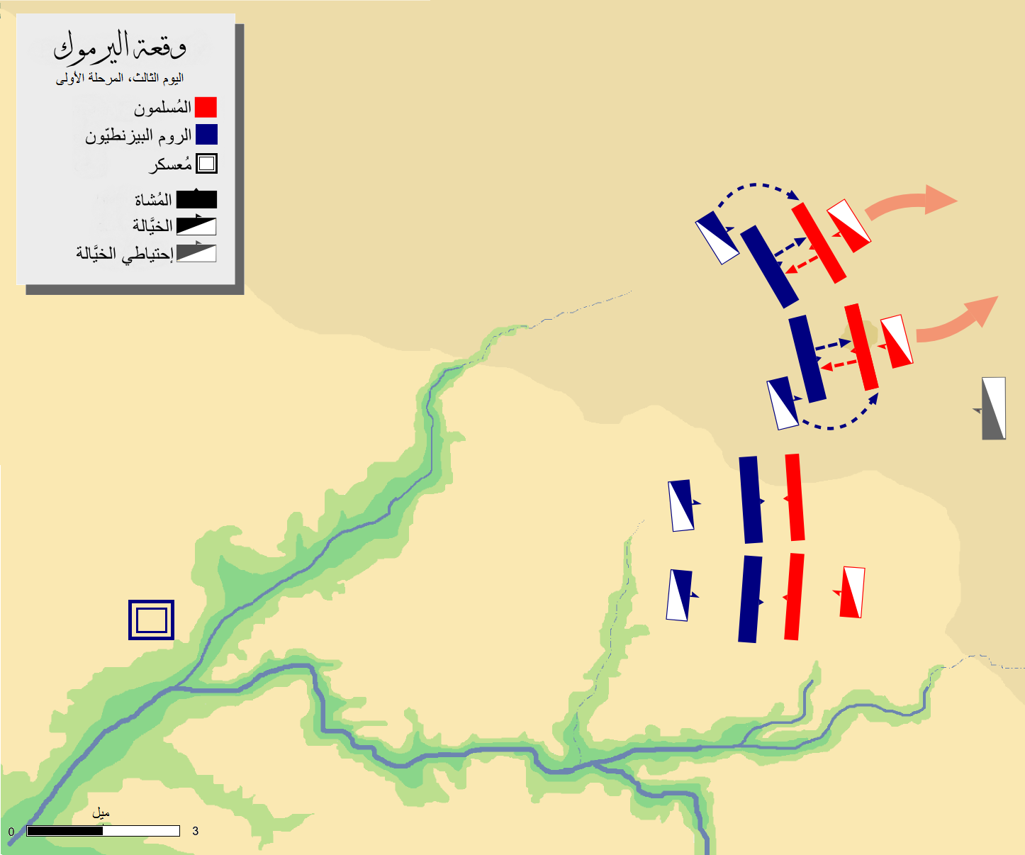 Battle_of_Yarmouk-day-3_phase-1